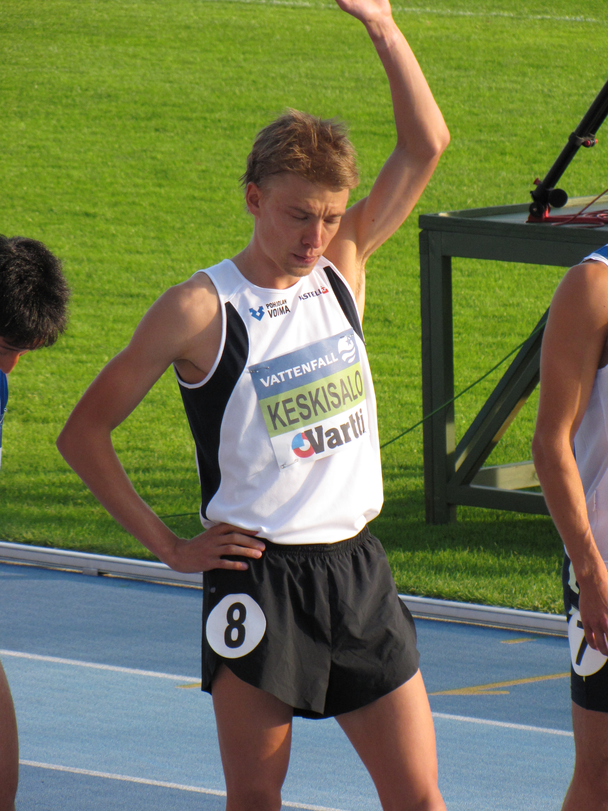 Jukka Keskisalo at Lappeenranta Games 2009 (EAA Classic Meeting).